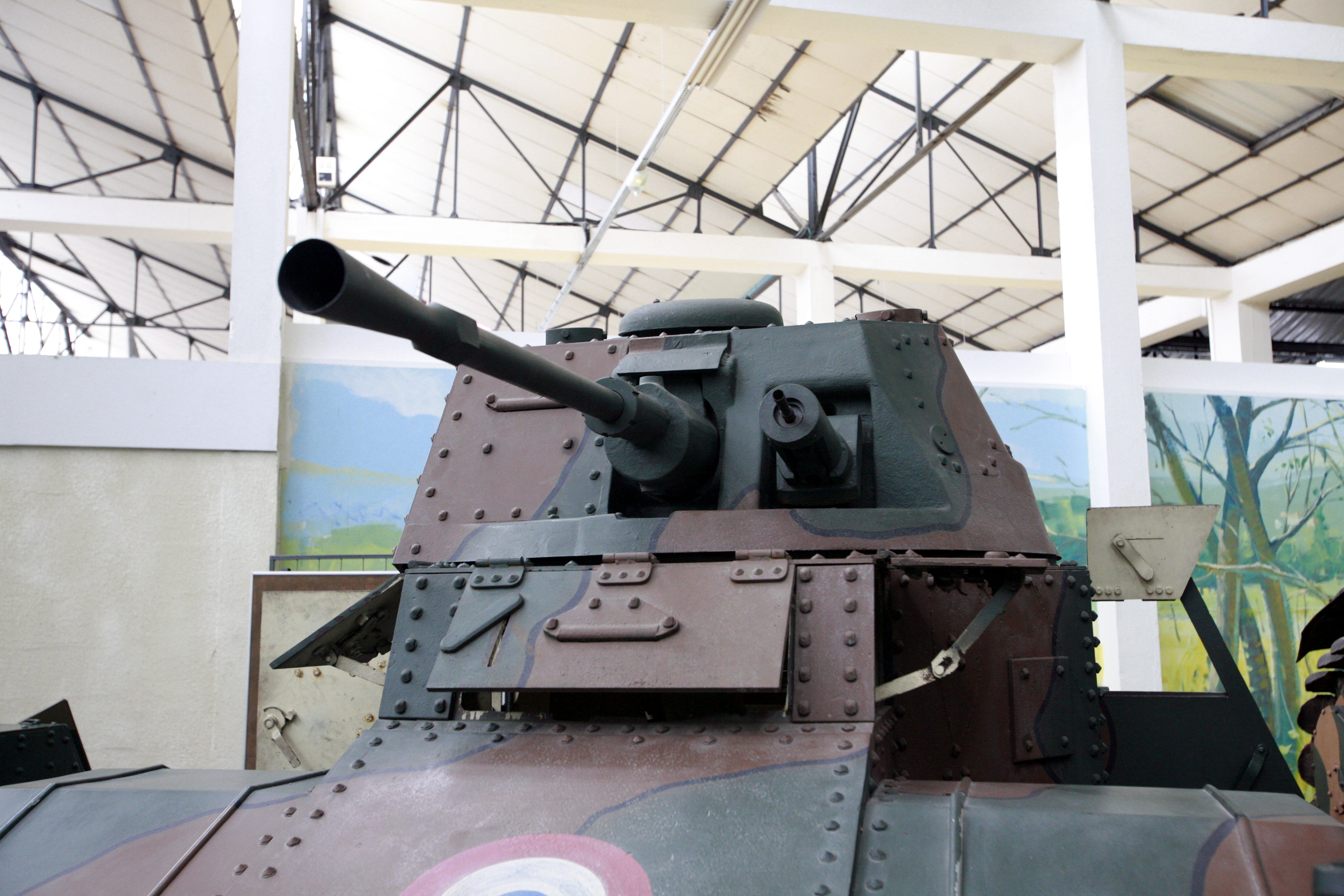 Panhard 178. On display at Saumur Général Estienne museum.